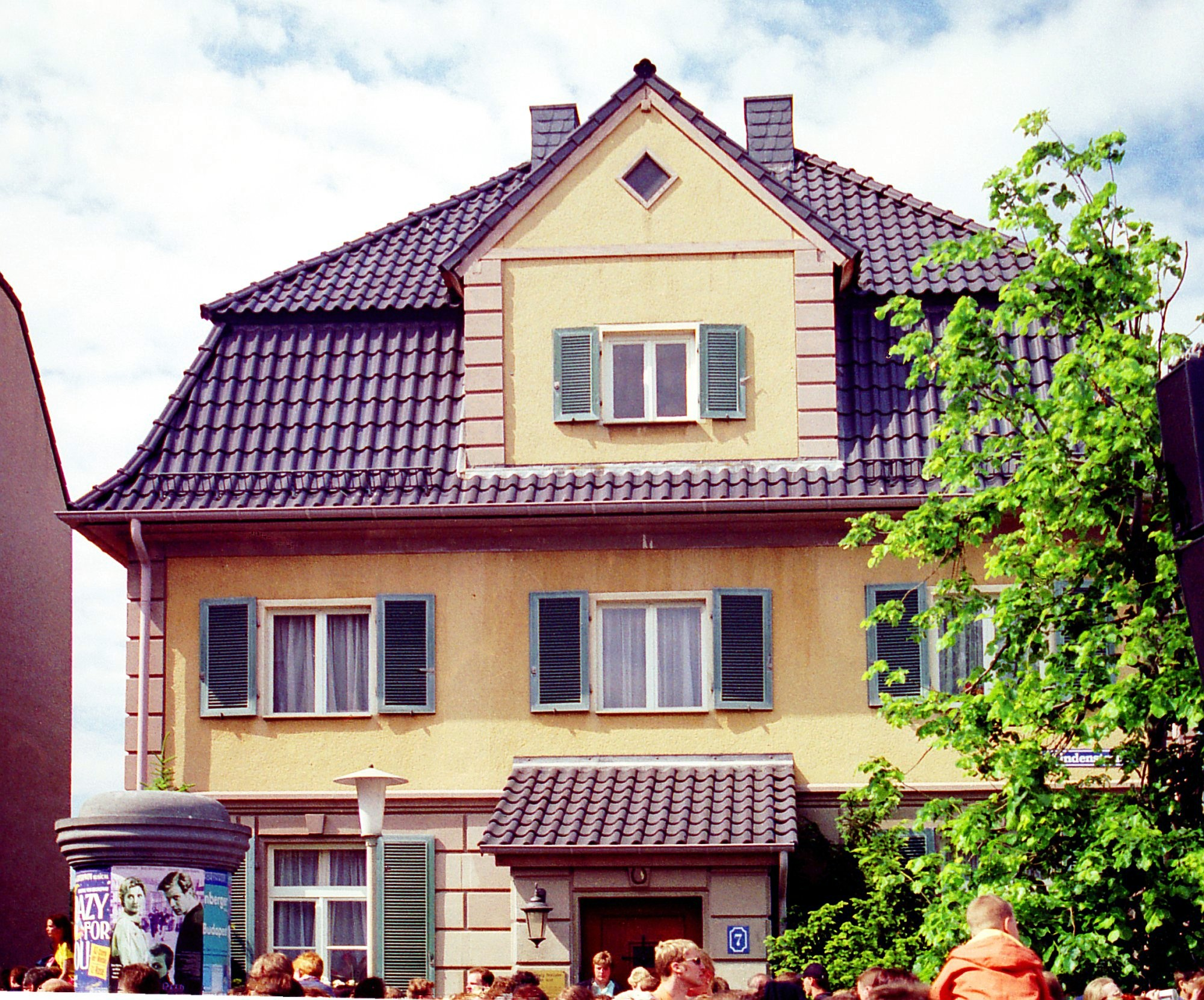 Lindenstraße House No. 7 ("Villa Dressler")